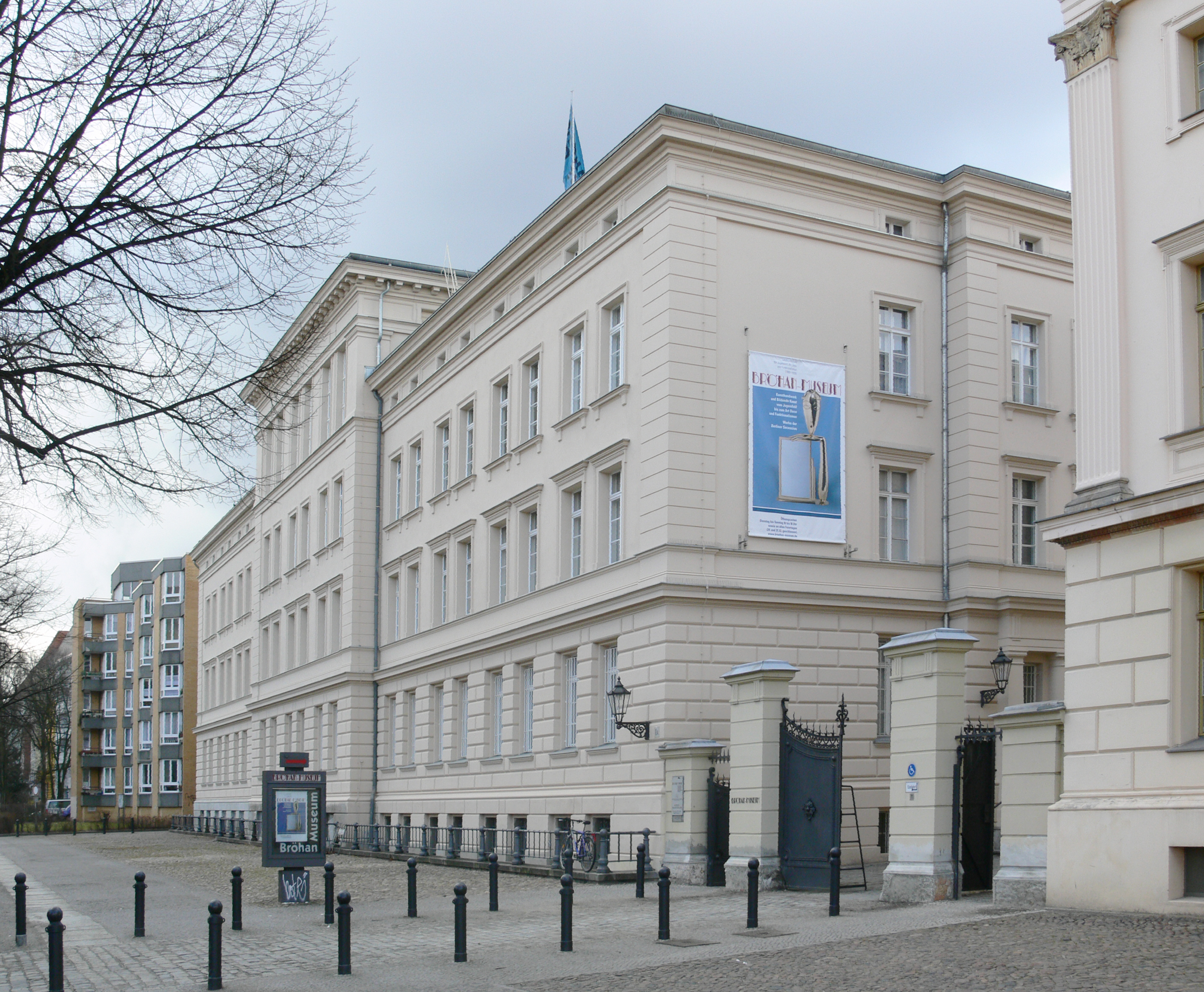 Bröhan-Museum Native nameBröhan-MuseumLocationBerlinCoordinates52° 31′ 08″ N, 13° 17′ 43″ E Established1973WebsitehpAuthority control : Q568767 VIAF: 132026004 ISNI: 0000 0001 2364 1925 SUDOC: 035768363 BNF: 133352501 Berlin